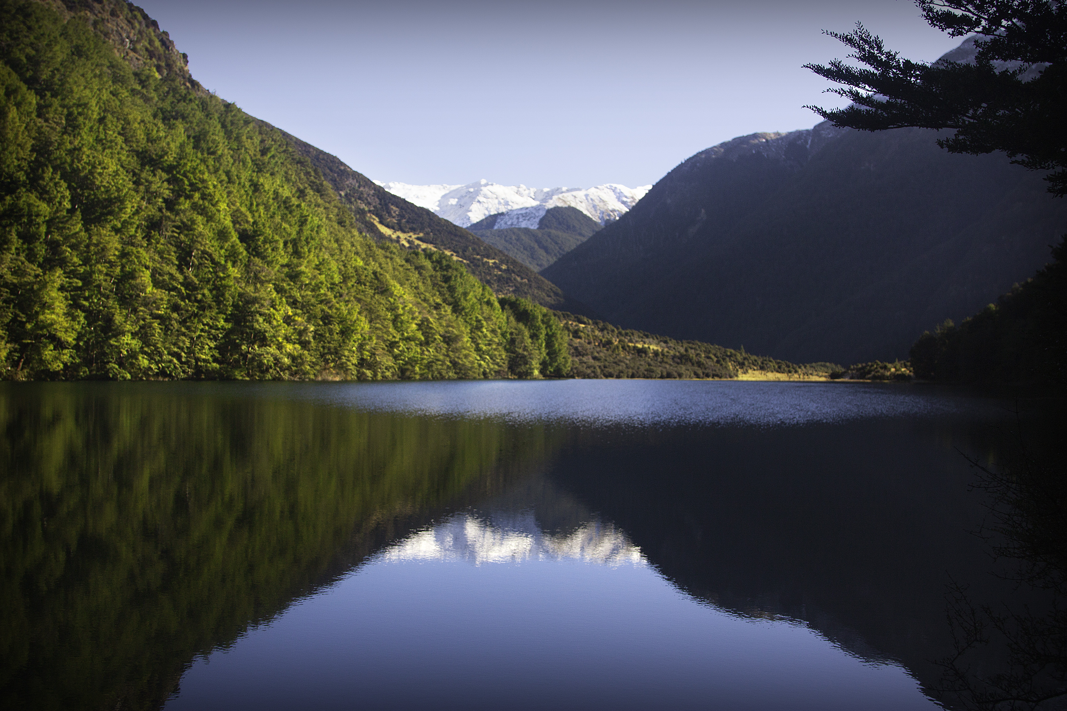 Lake Rere during winter on the Greenstone Track, Otago, New Zealand